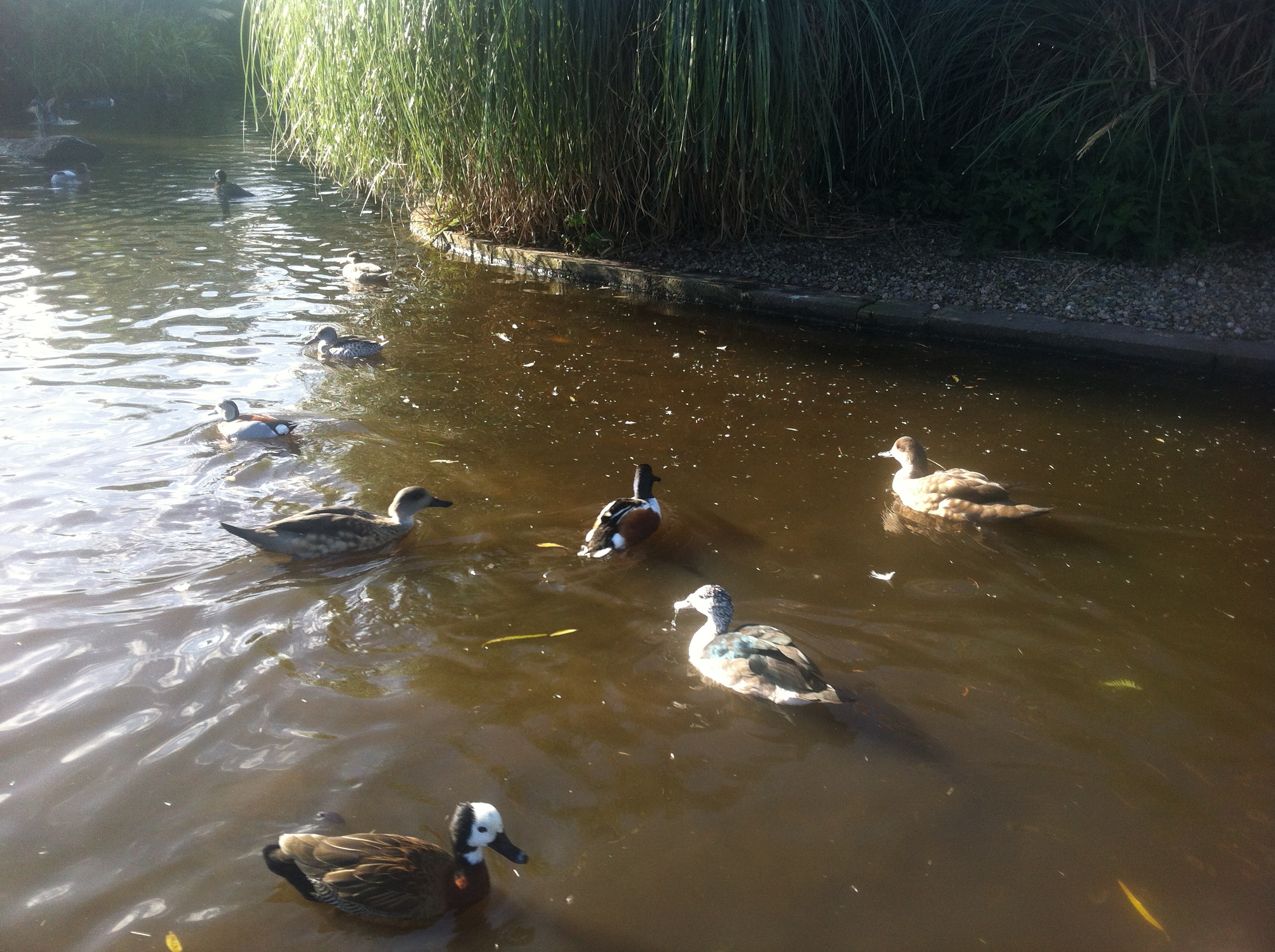 The ornamental duck pool at Castle Espie. Eurasian wigeon (Anas penelope, top left corner); White-faced whistling duck (Dendrocygna viduata, top left corner and bottom center left); Cape teal (Anas capensis, top left); Ringed teal (Callonetta leucophrys, below and to left of Cape teal); Marbled duck (Marmaronetta angustirostris, below and to right of Ringed teal); Northern shoveler (Anas clypeata, center); Crested duck (Lophonetta specularioides, right); and White-winged duck (Asarcornis scutulata, bottom center).